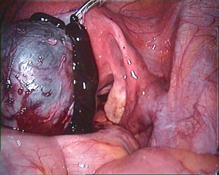 perforated endometriosis cyst of the left ovary